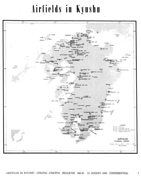 Armed Forces of the Empire of Japan Airfields in kyushu 15 august 1945